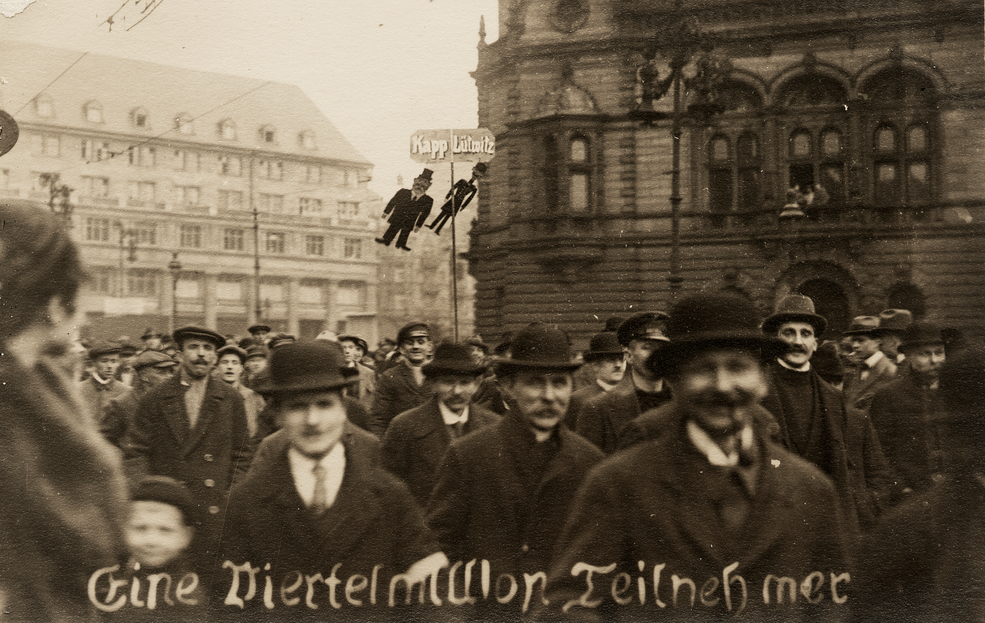 Photograph of a demonstration in Cologne, Germany against the Kapp-Lüttwitz putsch 1920.